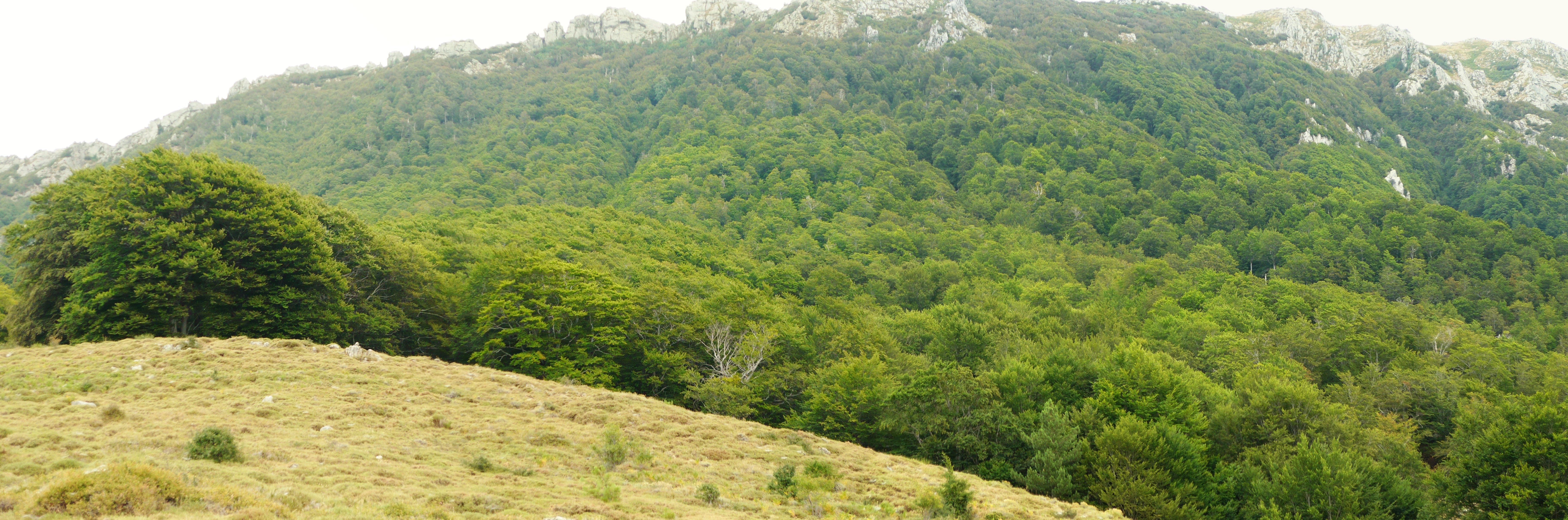 Beech forest - Forêt domaniale de Saint-Antoine, Cozzano, Corsica